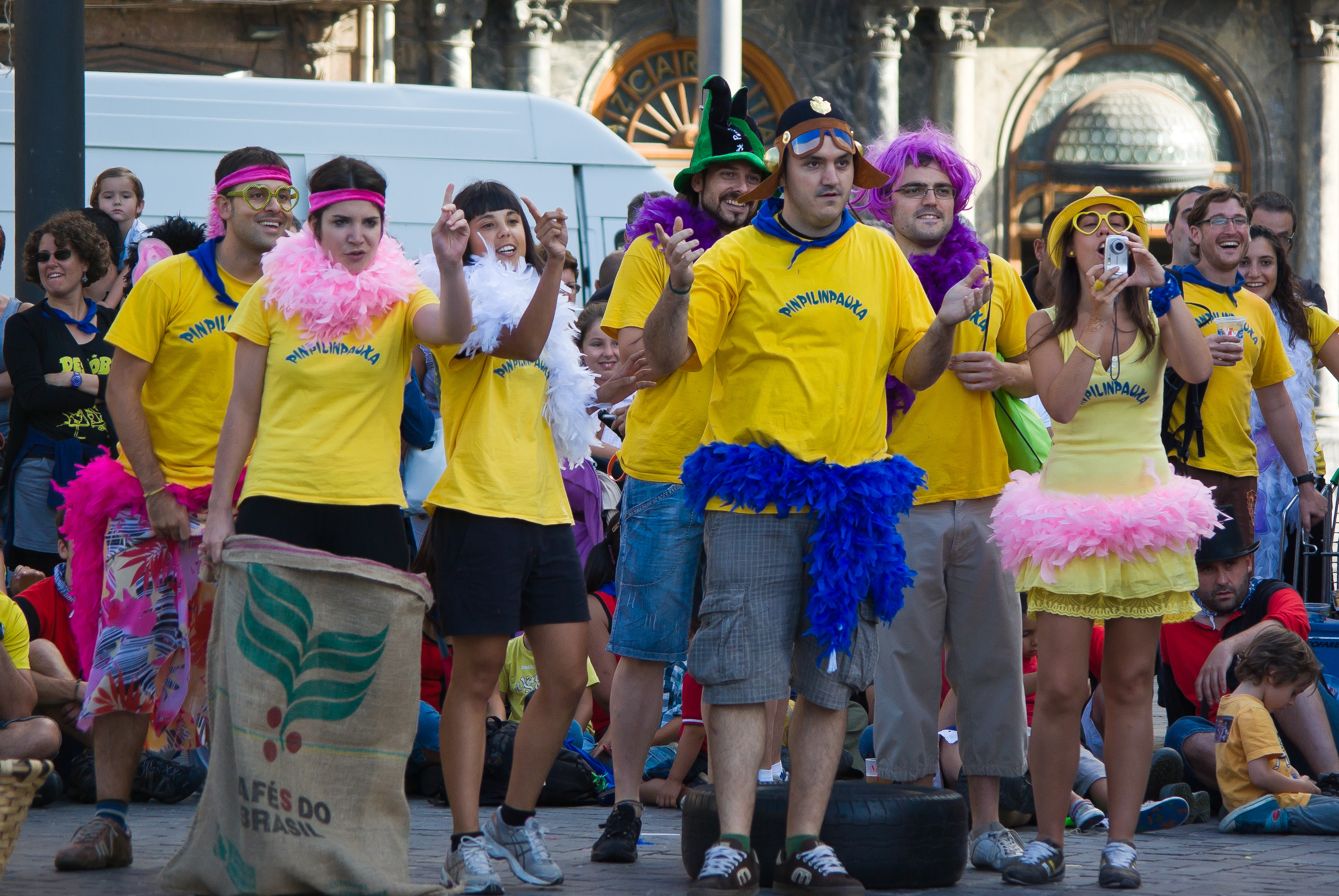 Pinpilipauxa named feast-group or konpartsa in Bilboko Aste Nagusia.